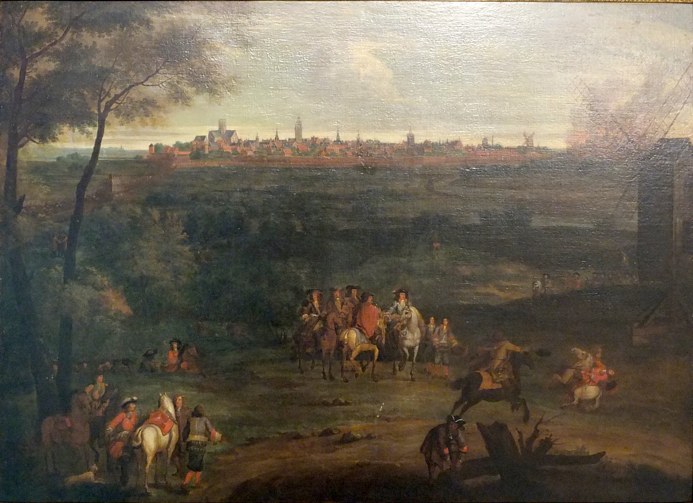 Gaspard F. Thielens (Flemish,1630-1691), The siege of Dendermonde by Louis XIV in 1667, Museum Vleeshuis, Dendermonde.